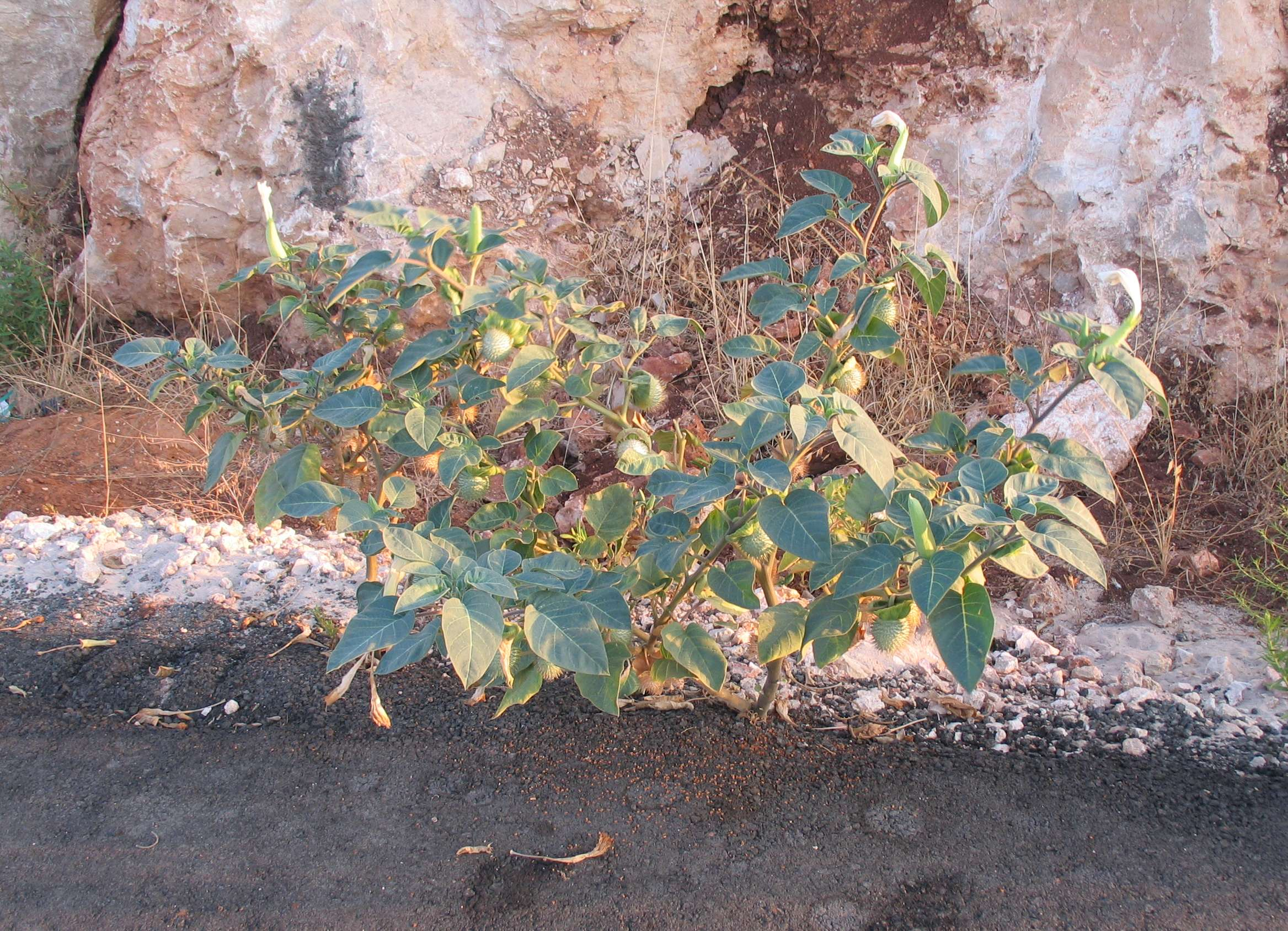 Datura innoxia in Beit Arye settlement in Samaria.